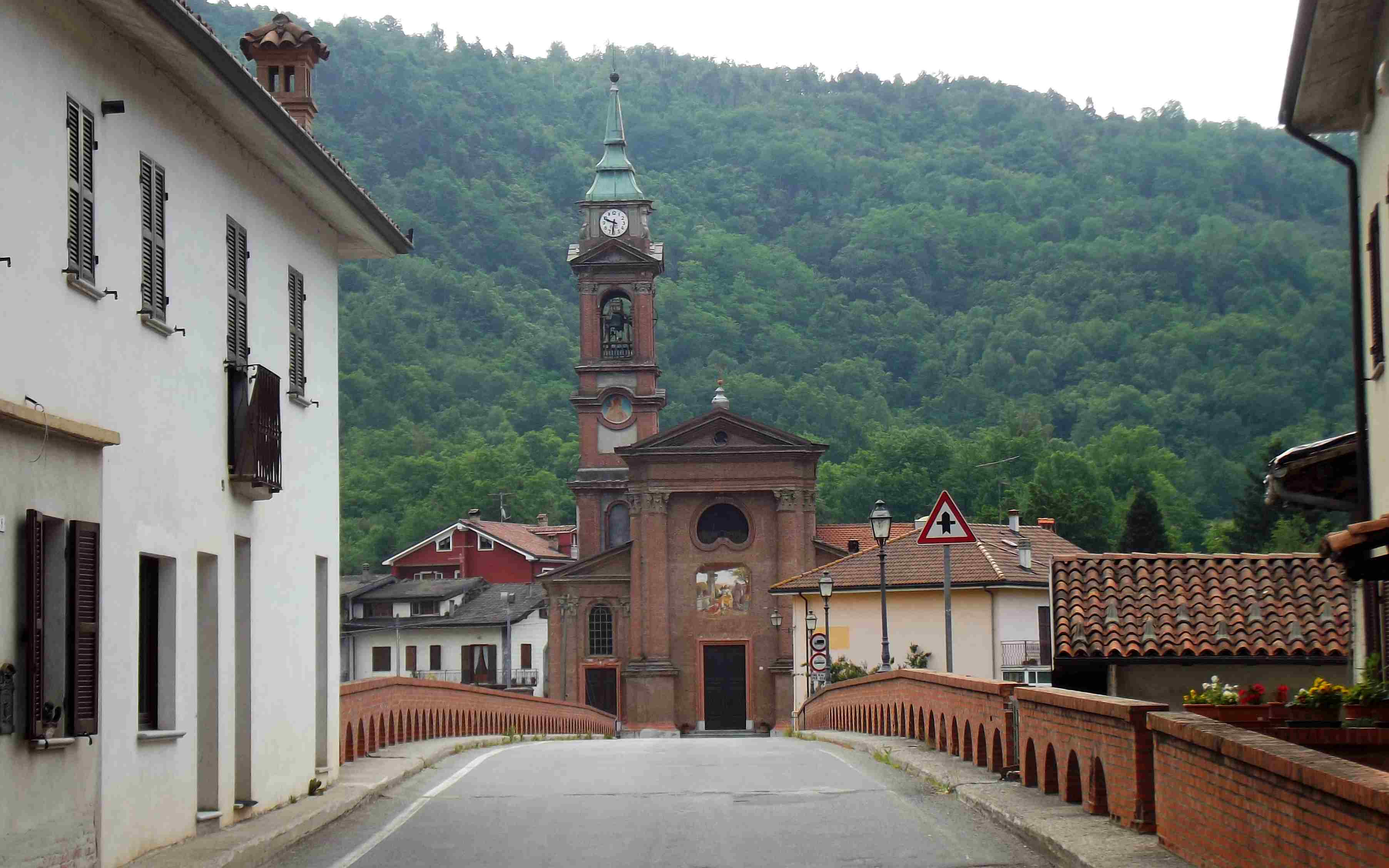 Nucetto (CN, Italy): parish church and bridge on the Tanaro river